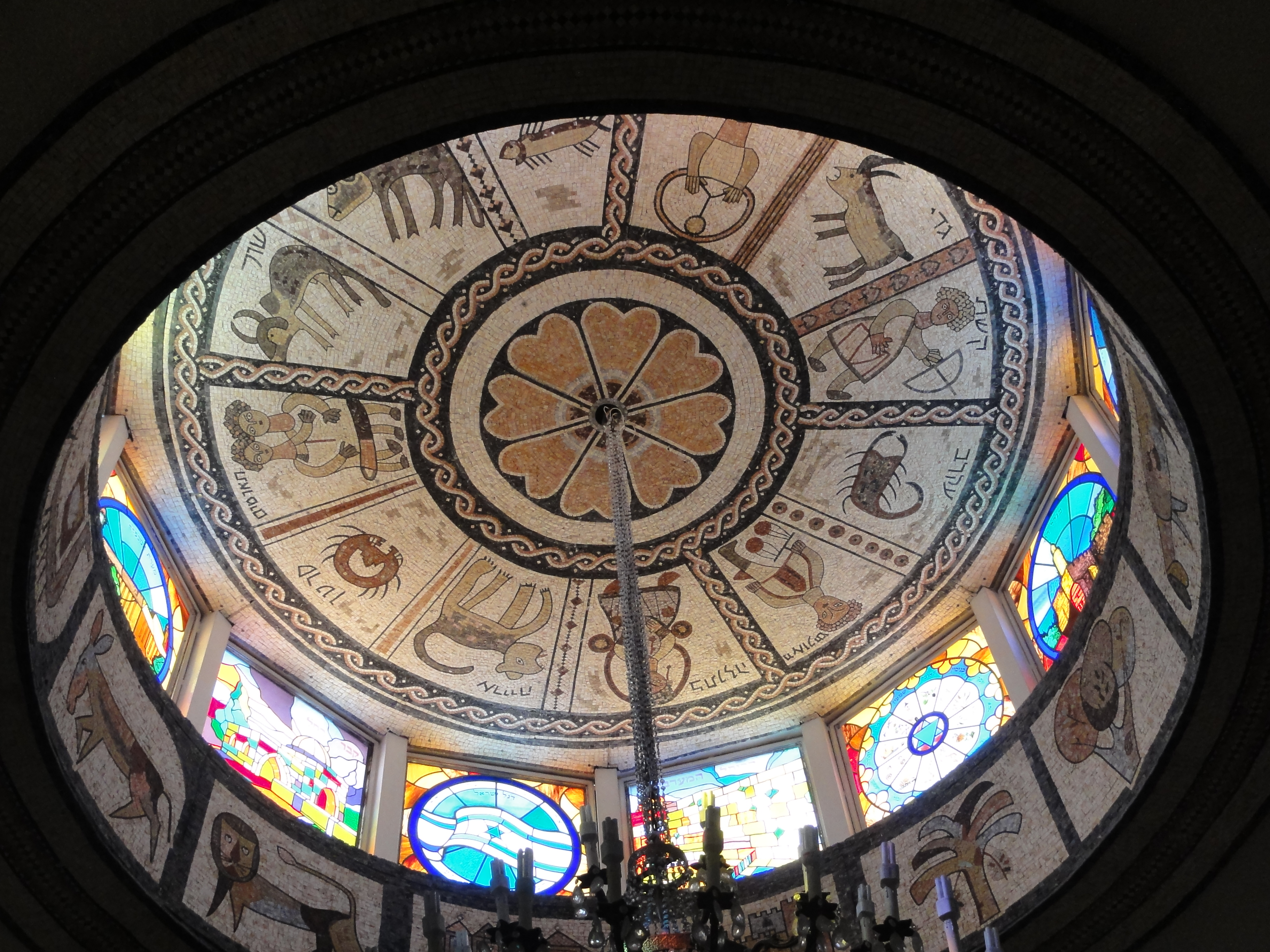 Or Torah Synagogue, Akko, Israel Info GPS data may be inaccurate. EXIF data regarding date and time may be inaccurate.